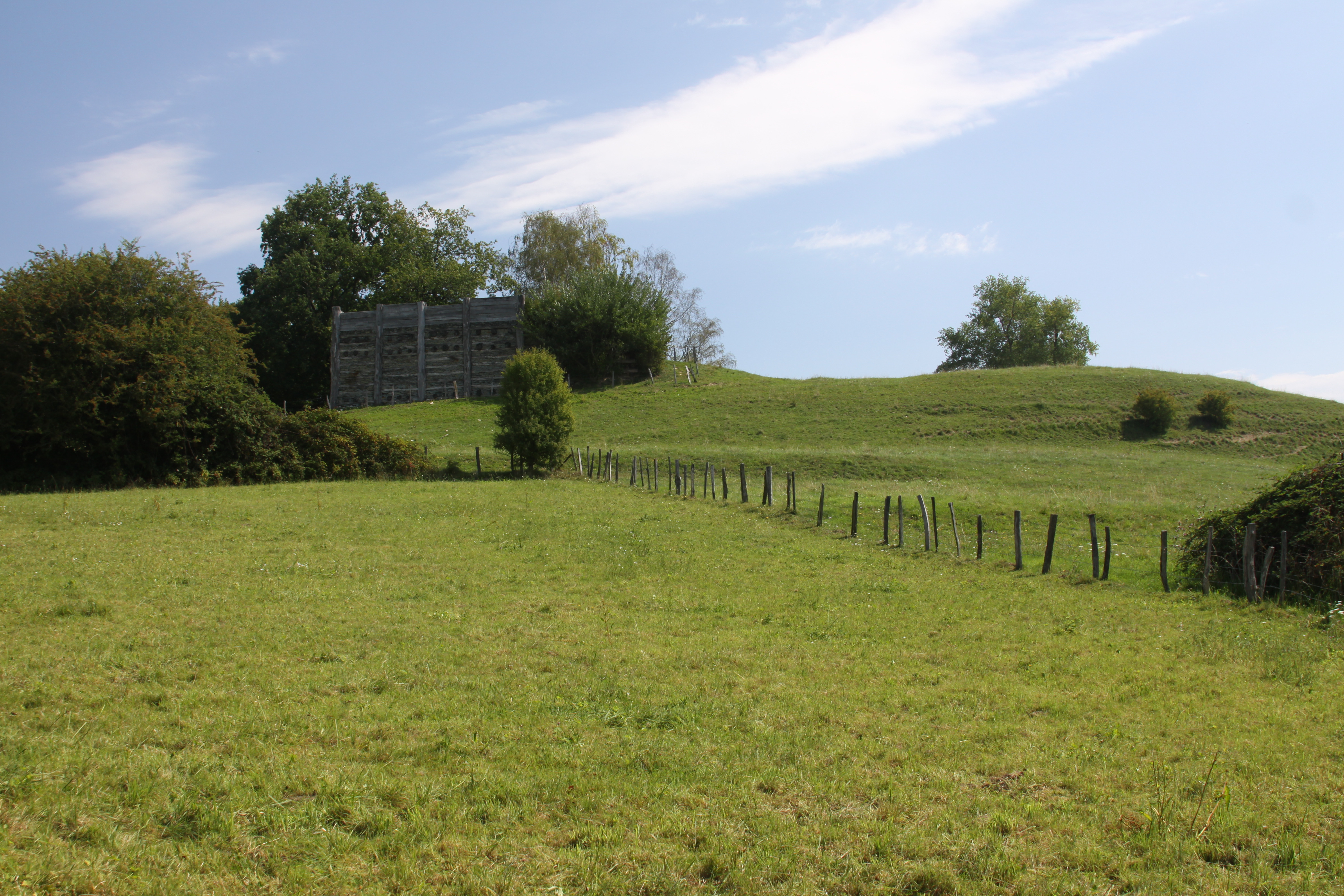 Rampart, Partial reconstruction of a rampart of the Helvetii, Mont Vully